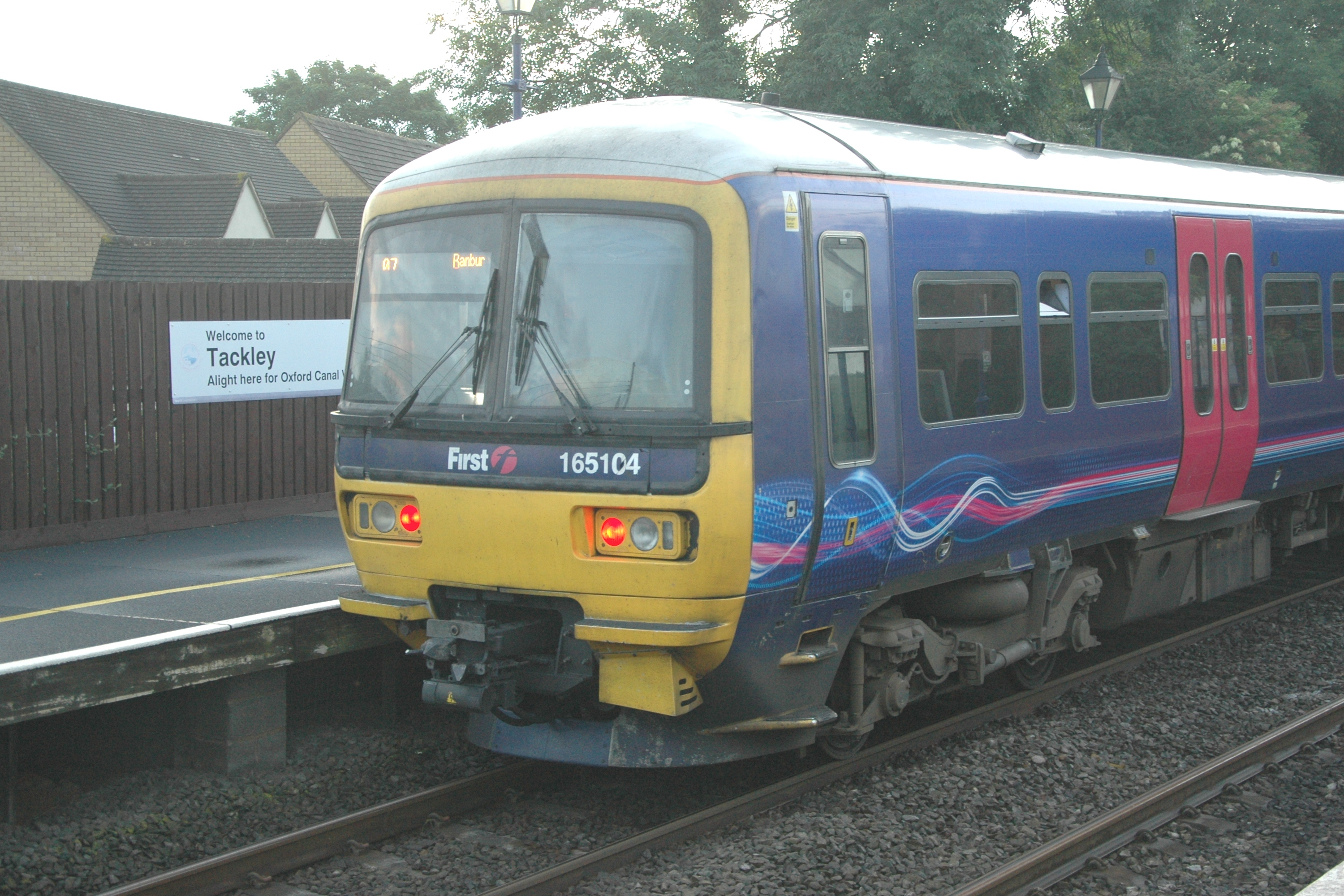 Tackley railway station, Oxfordshire: a "down" First Great Western train to Banbury formed of DMU 165106 approaching the level crossing.